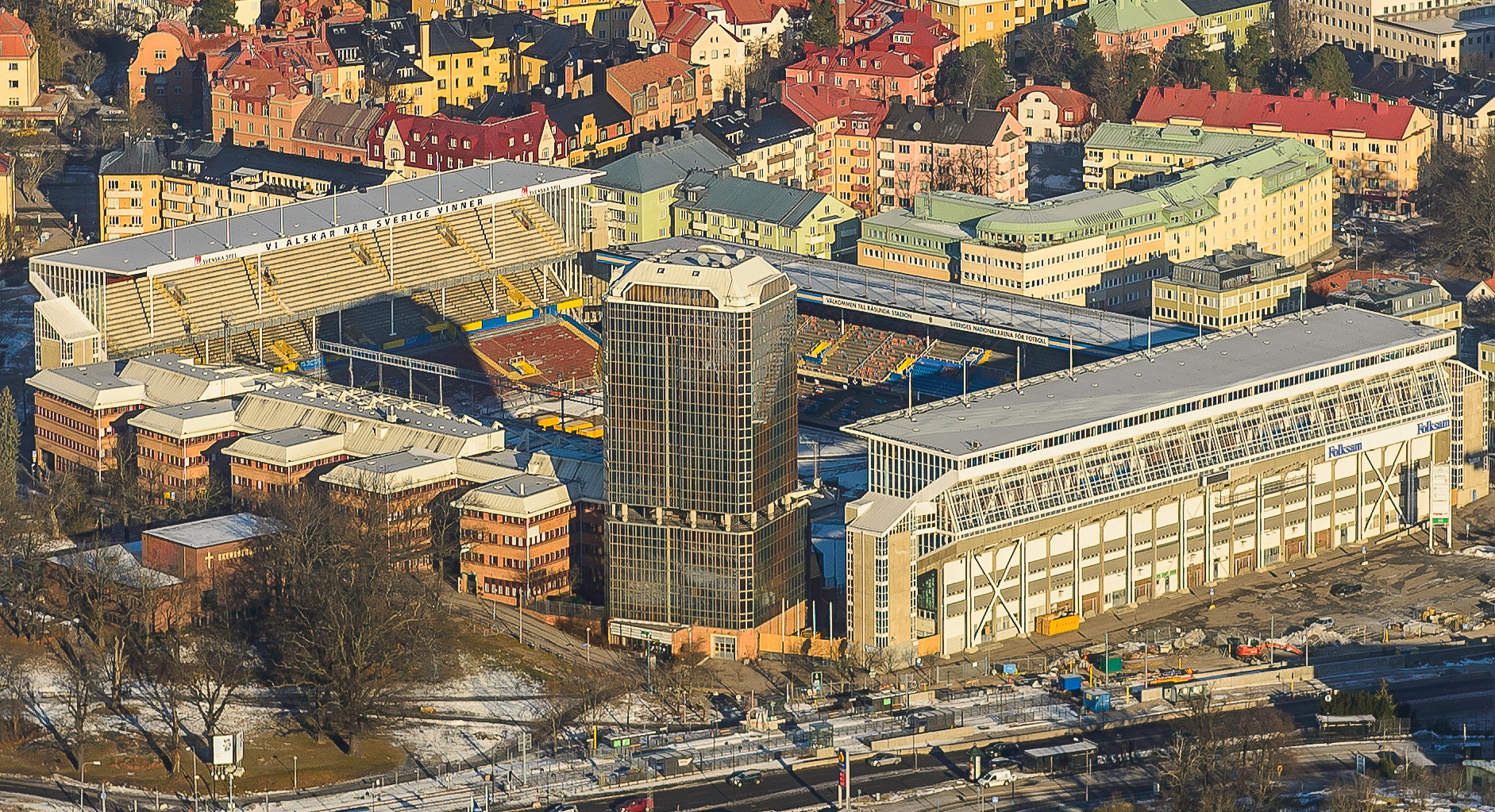 Råsunda Stadium located in Solna Municipality in Stockholm, Sweden. Råsunda was Swedish national football stadium 1937-2012. In November 2012 it was closed down and replaced by the new Friends Arena about 1 km from Råsunda Stadium. Flats and offices will be built on the old ground.